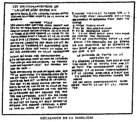 The Decalogue, or Ten Commandments on the fireplace in the lounge of The Mabilère.